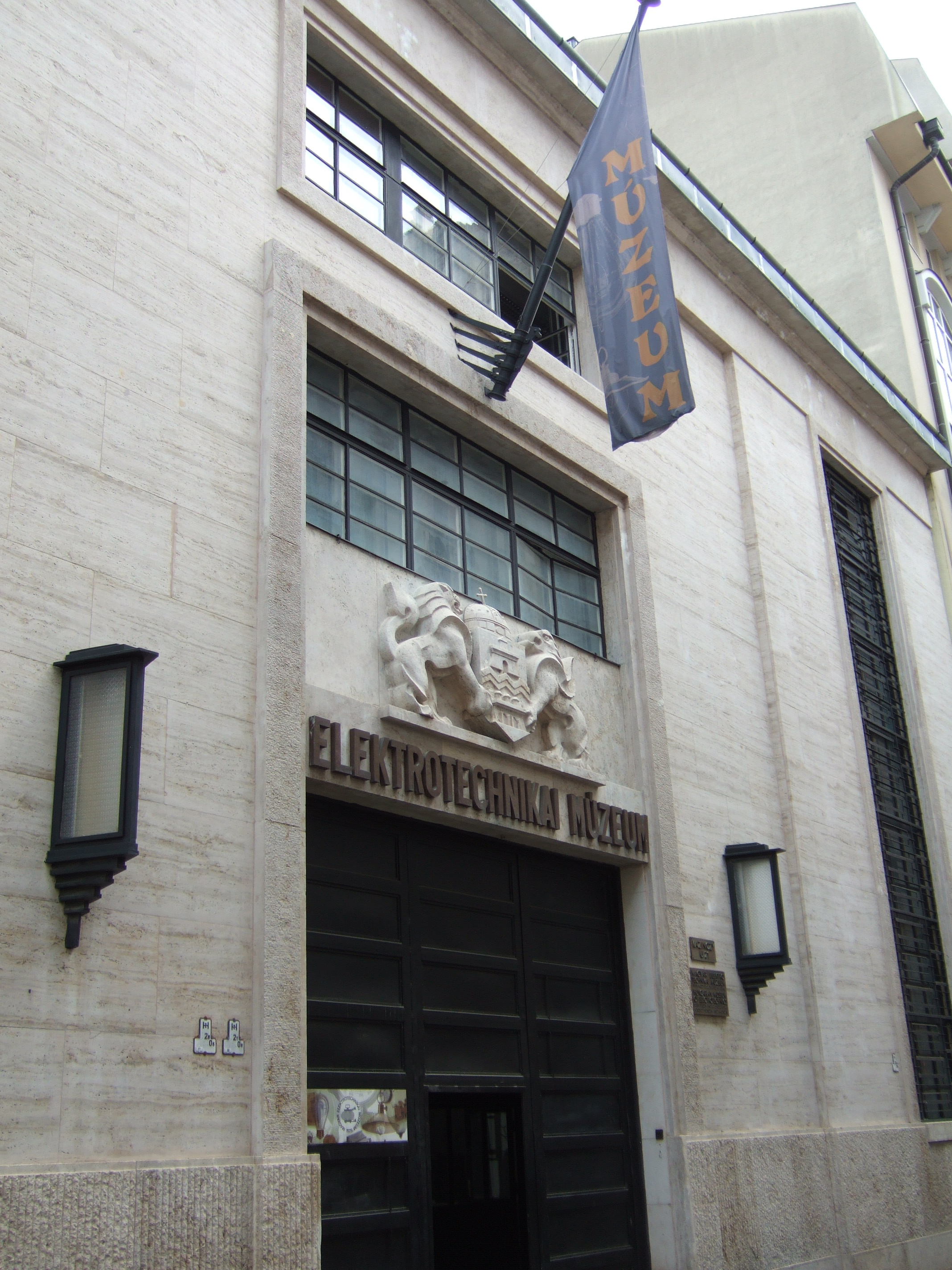 The Electrotechnical Museum of Hungary (Magyar Elektrotechnikai Múzeum) is situated in a transformer station from 1934. In the mid 1970s the electrotechnical museum was established in the building. The building was originaly designed by Ágost Gerstenberg and Károly Arvé in a Bauhaus style.